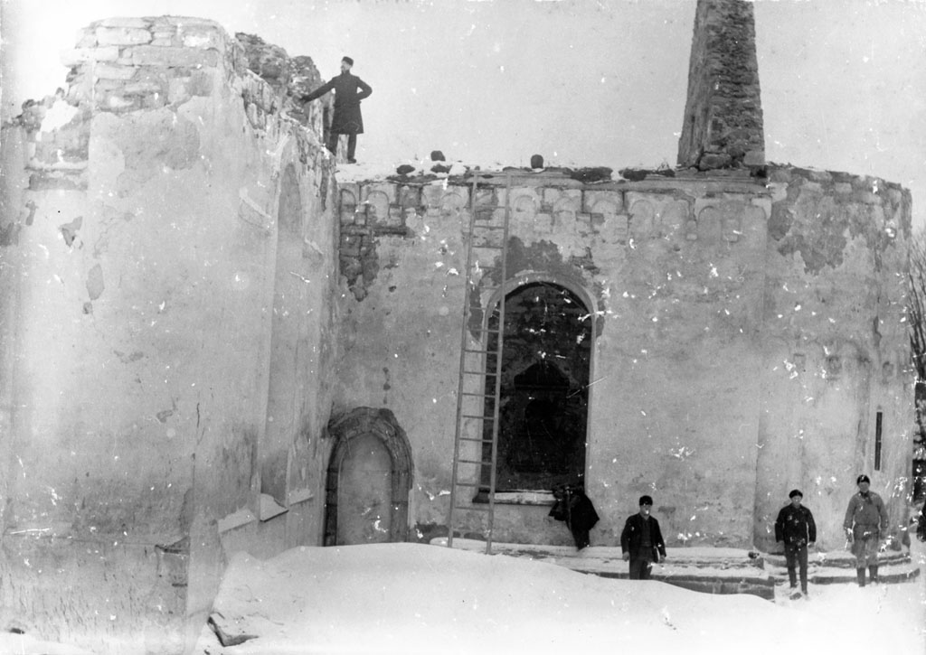 People at the ruins of Gränna Church, destroyed by fire in 1889. The church, from the 12th century, was rebuilt in 1895. Format: Silver gelatin print